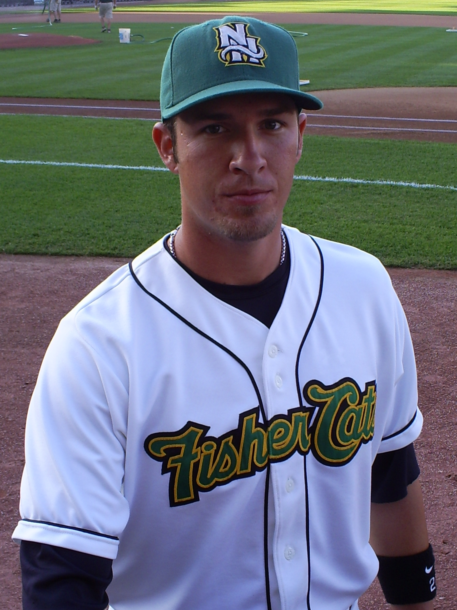 Published by Craig Michaud. Picture was taken at a New Hampshire Fisher Cats game in 2008 01:31, 9 February 2009 . . Thebudman623 . . 1,920×2,560 (2.07 MB)